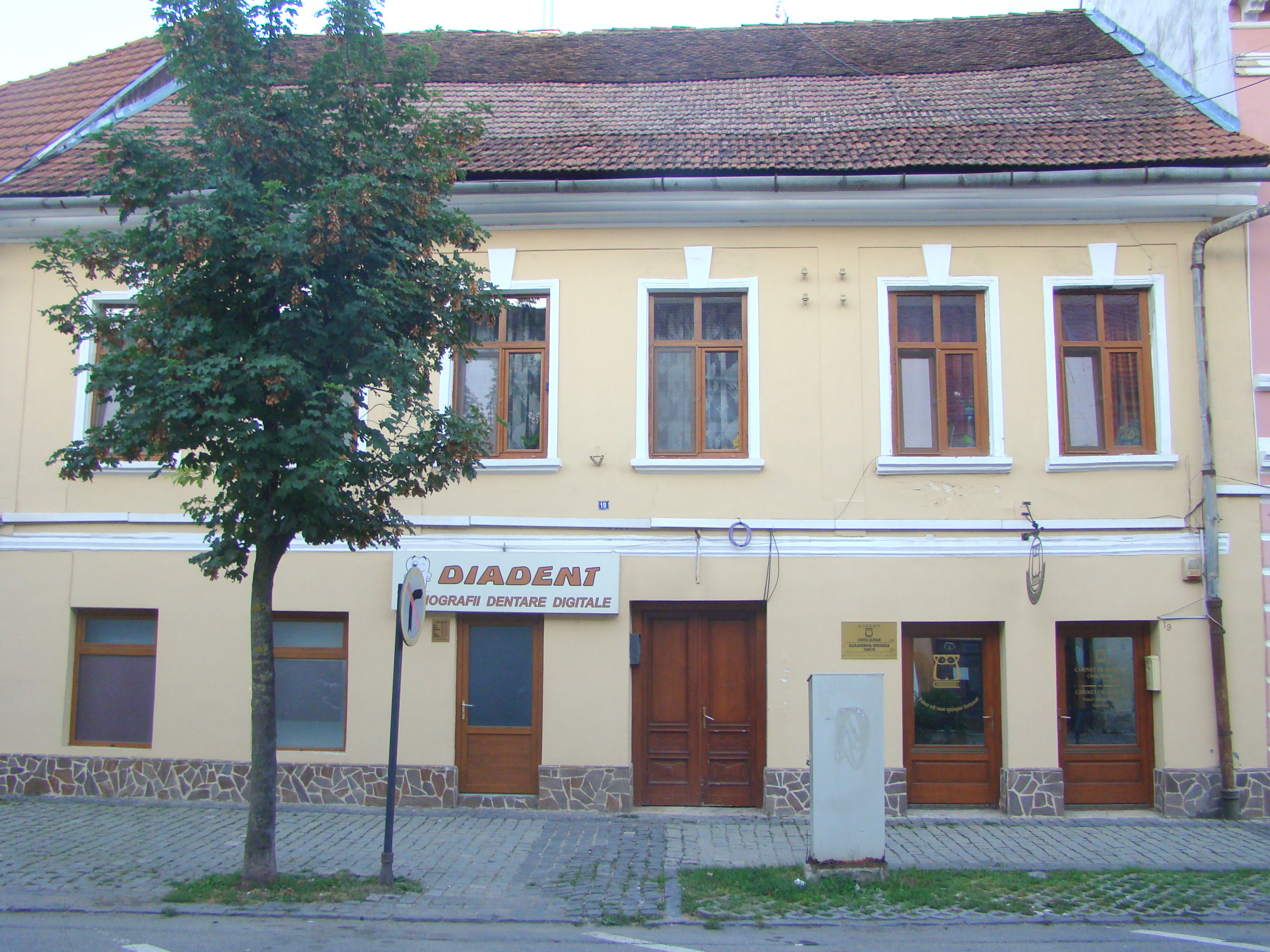 House, historic monument, in Bistrița, Nicolae Titulescu street 19